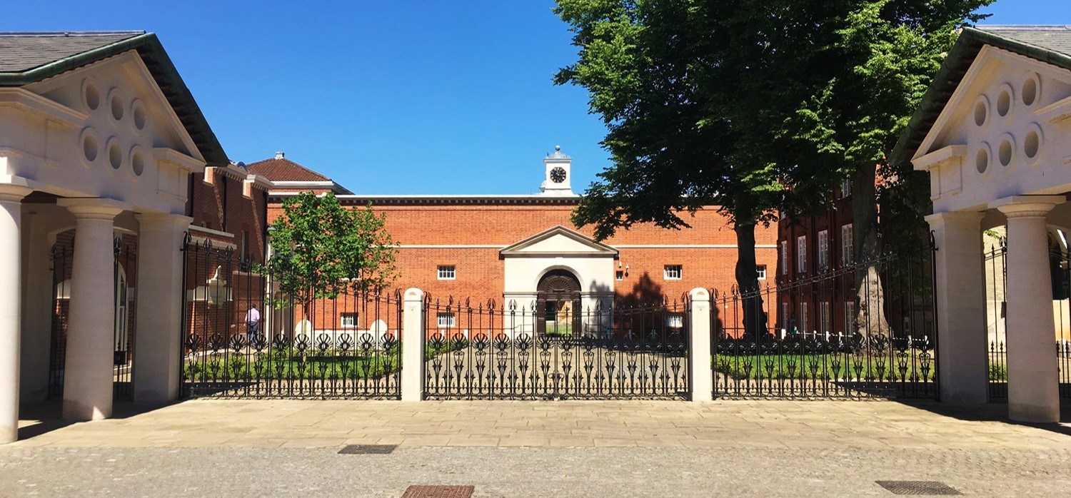 Leatare Quadrangle, Lady Margaret Hall Oxford